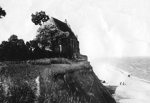 Church in Trzęsacz in 1870